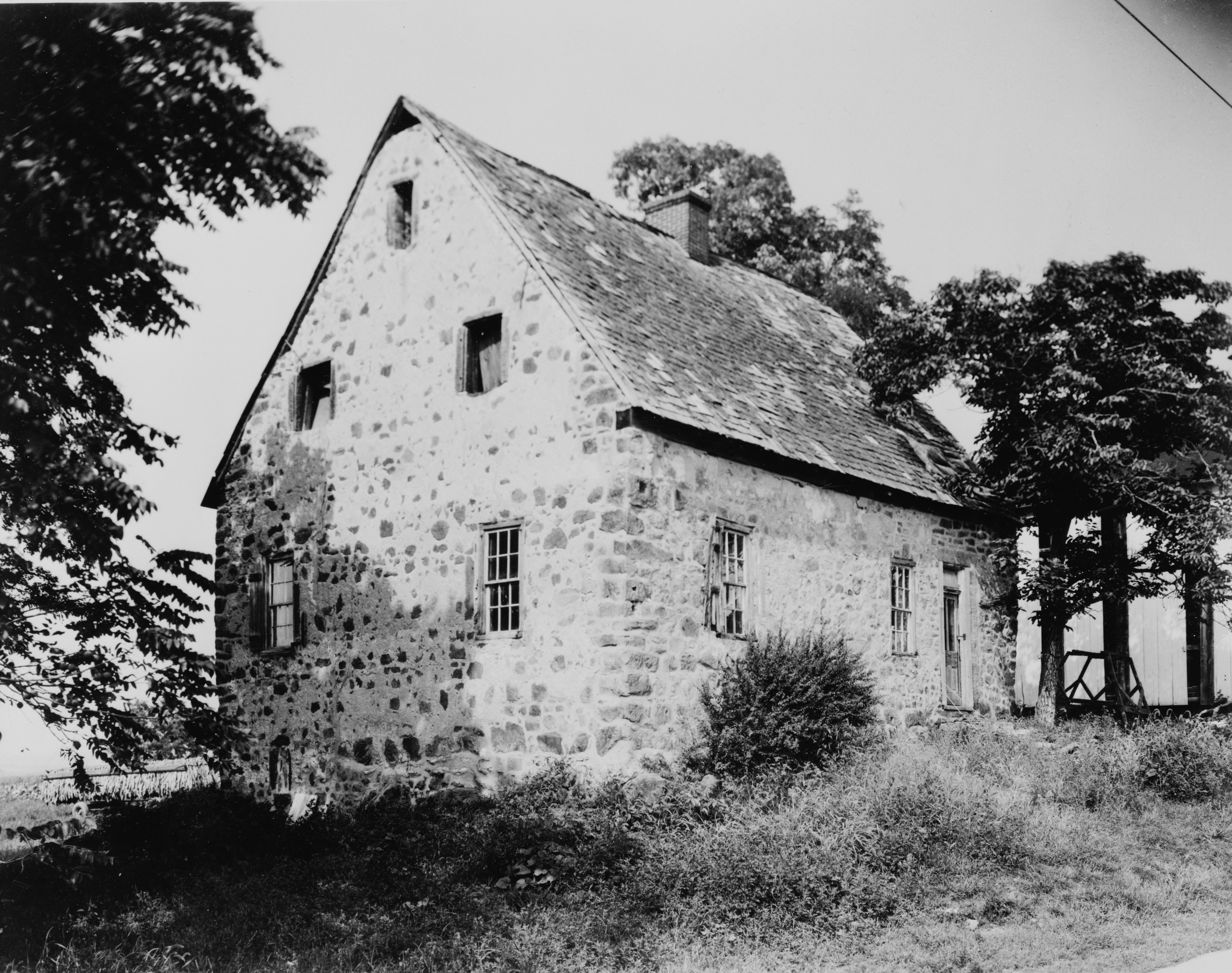 The Hans Herr House is the oldest dwelling house in Lancaster County, Pennsylvania. It also enjoys the distinction of being the first Mennonite meetinghouse in America. (Hans Herr was a Mennonite Bishop). Architecturally, the house is important for its Germanic design.